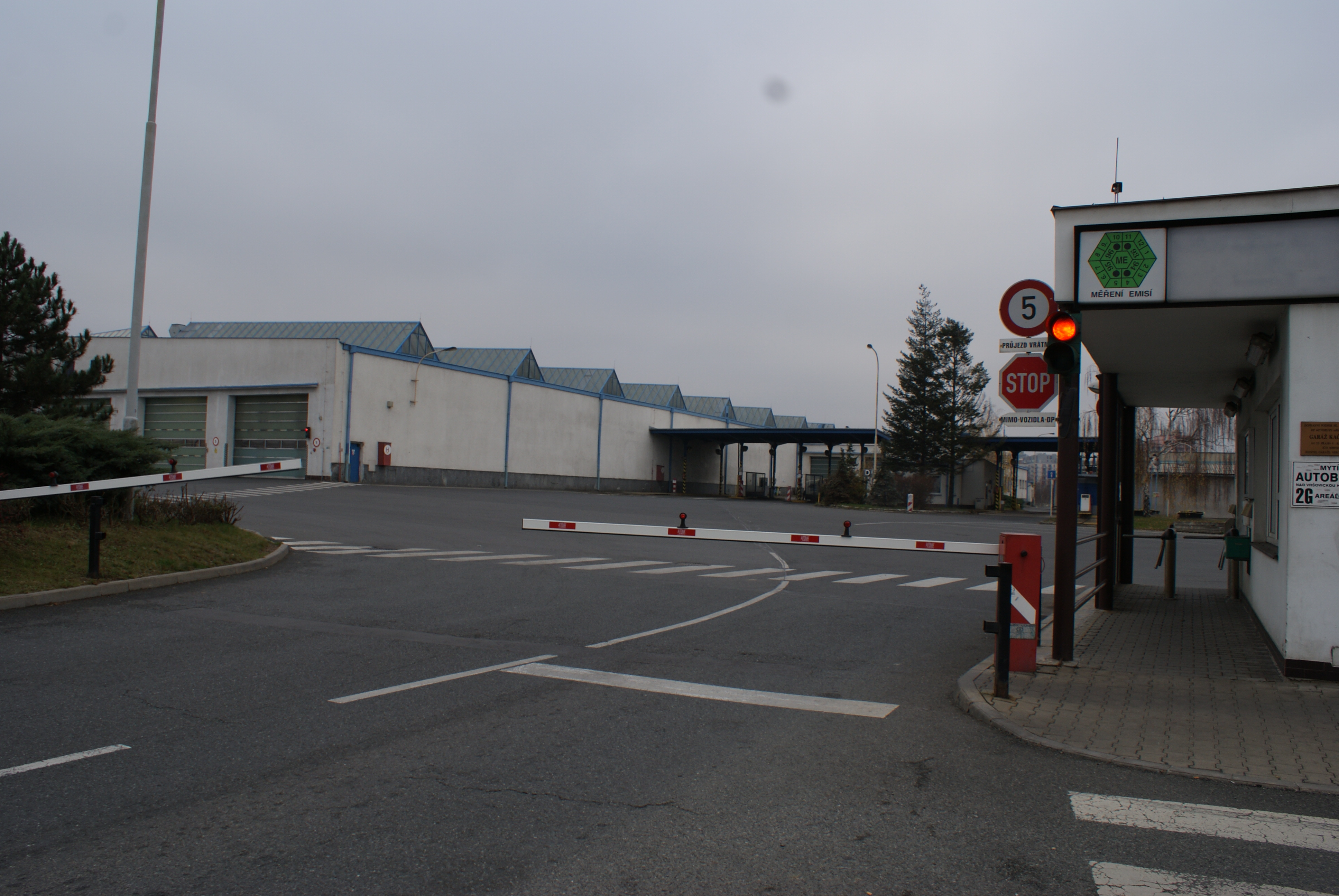 Kačerov bus Garages in Prague, main entrance.